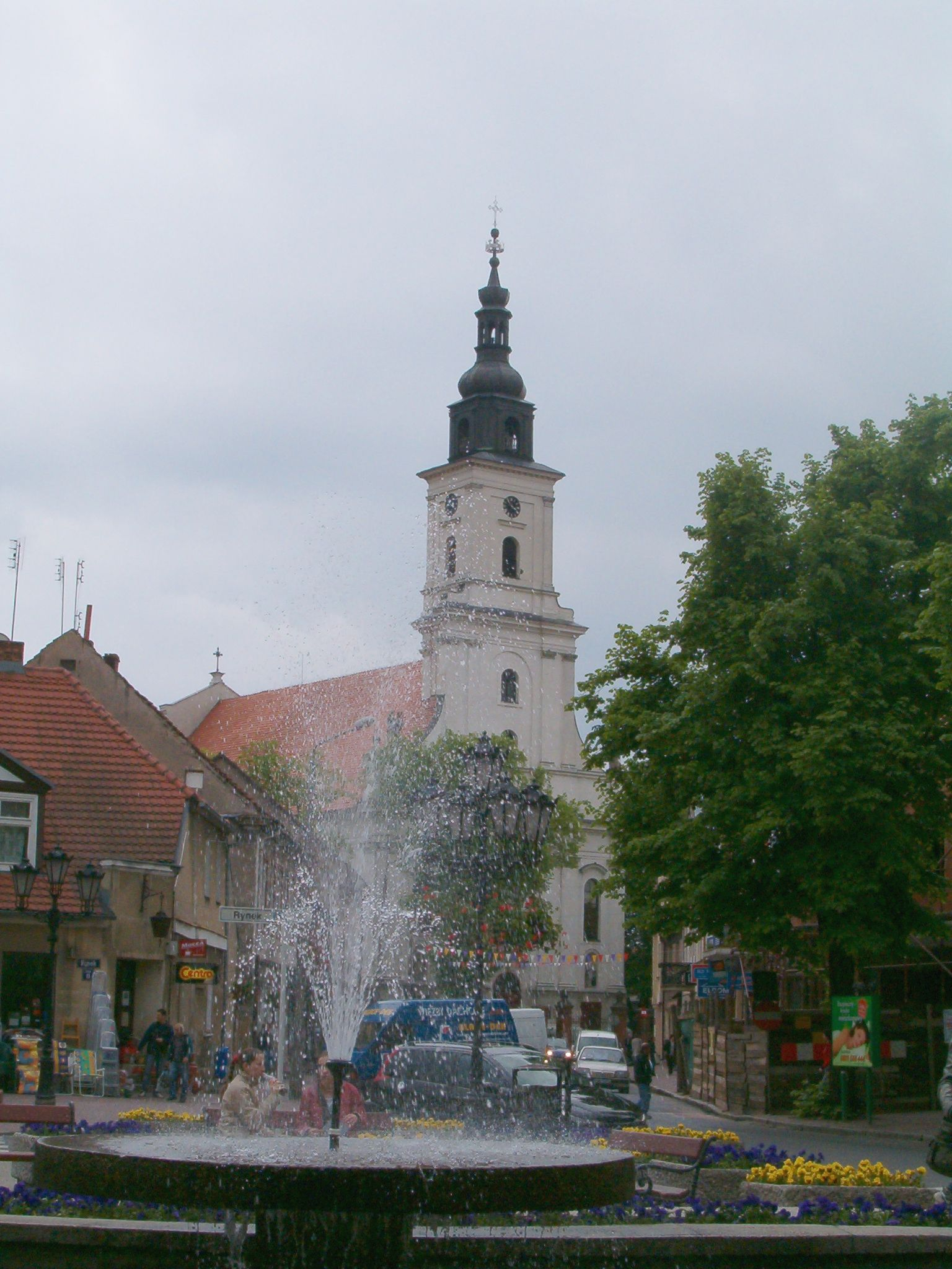 Fara Church in Wolsztyn, Poland